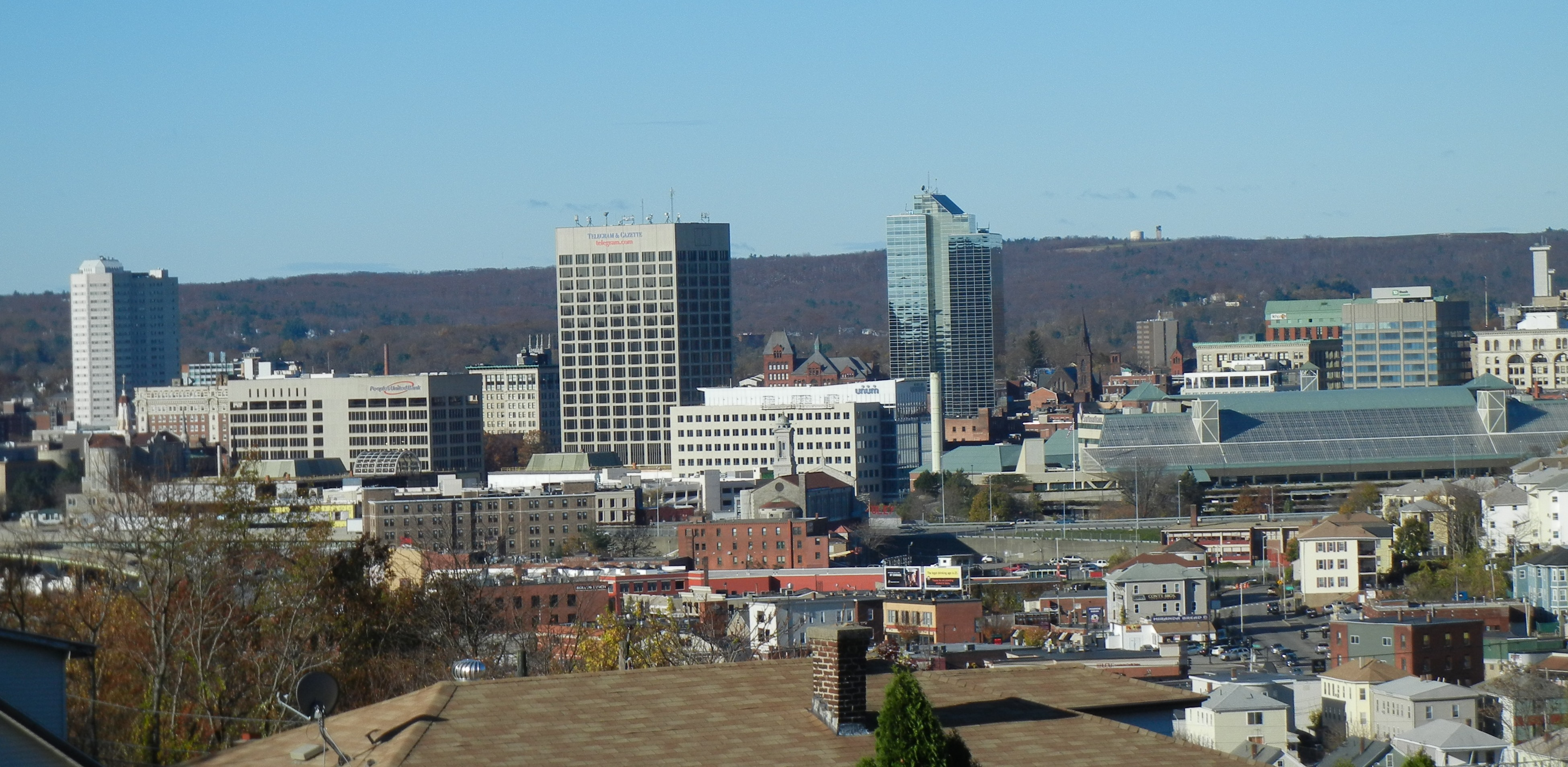 Downtown Worcester, Massachusetts on November 4, 2012